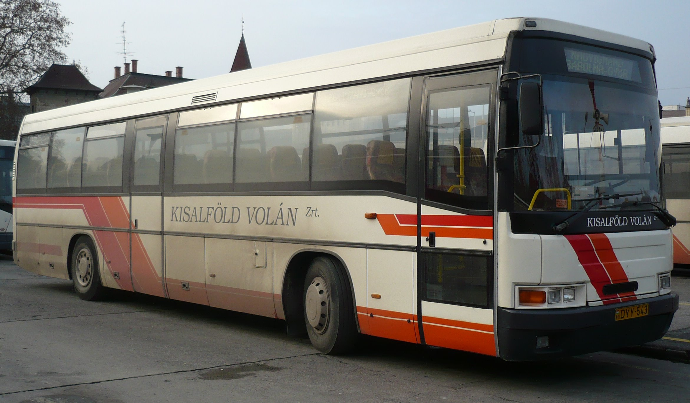 Ikarus 395 bus in Győr.